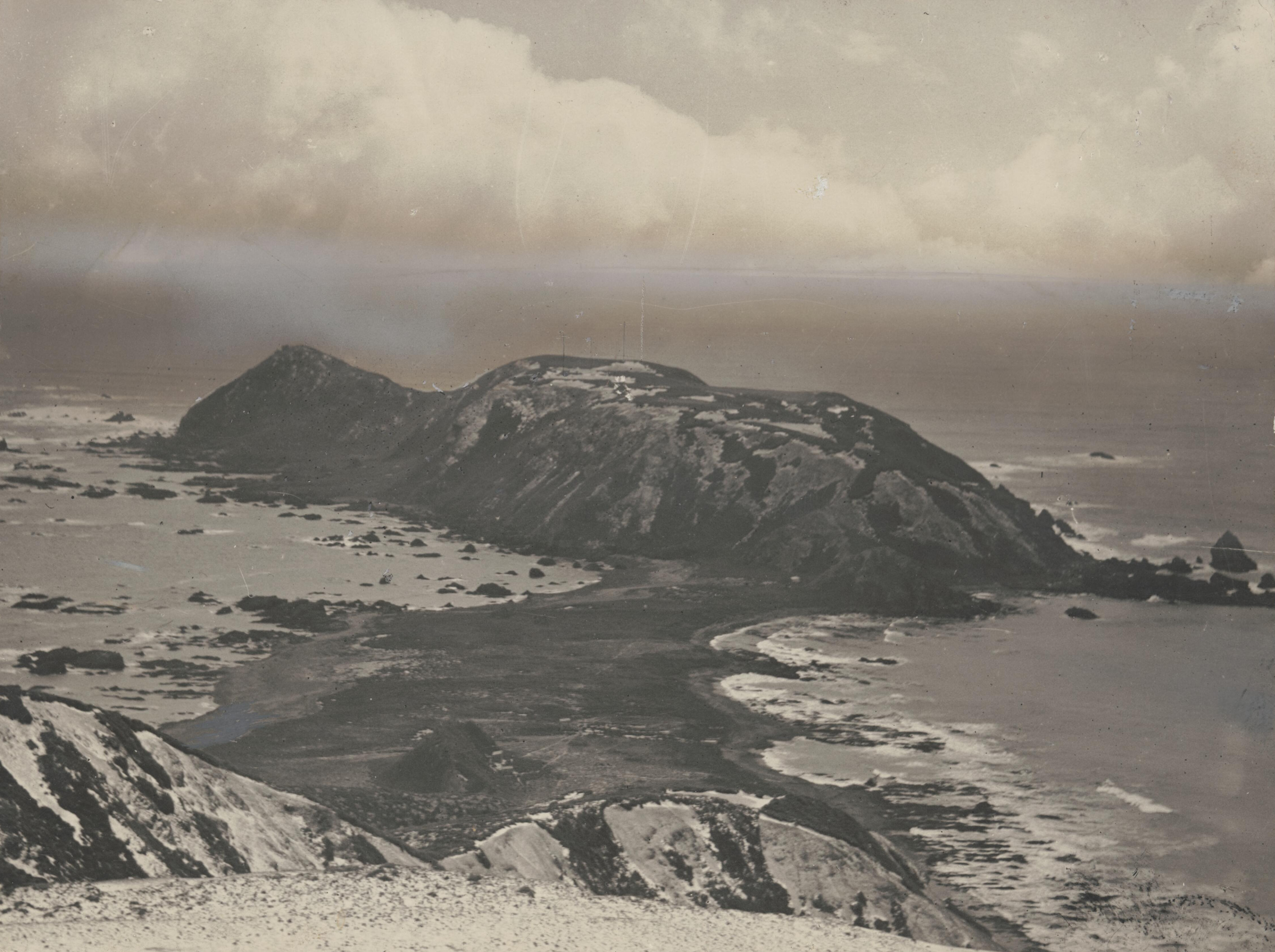 View of Wireless Hill, Macquarie Island, from the south.